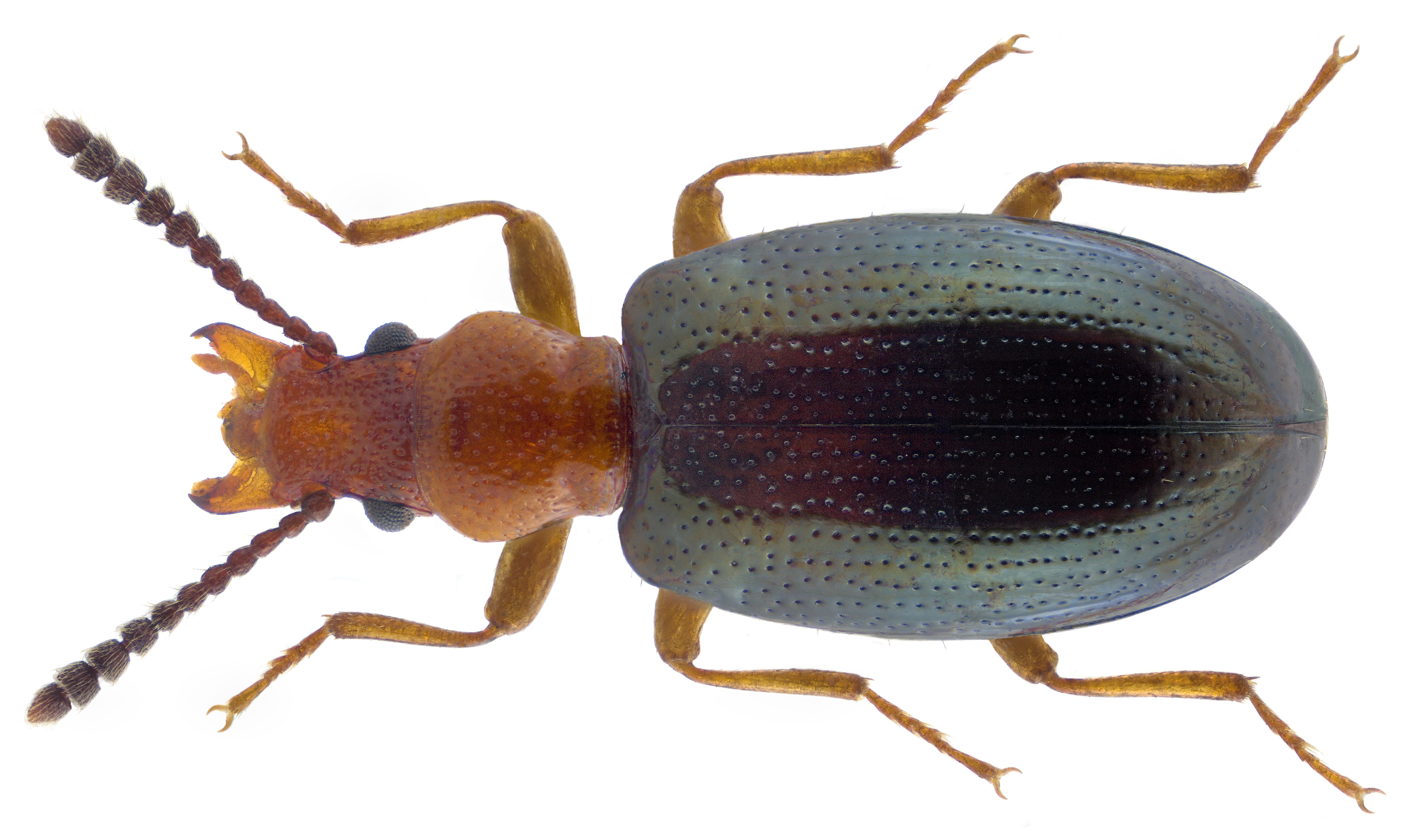 Family: Salpingidae Size: 3.5 mm (2.5 to 3.5 mm) Distribution: Europe Ecology: Development in rotten hardwood, imagines under loose bark Location: England, Savernake leg.det. D.R.Nash, 2.IV.1970 Coll. Oxford University Museum of Natural History Photo: U.Schmidt, 2018